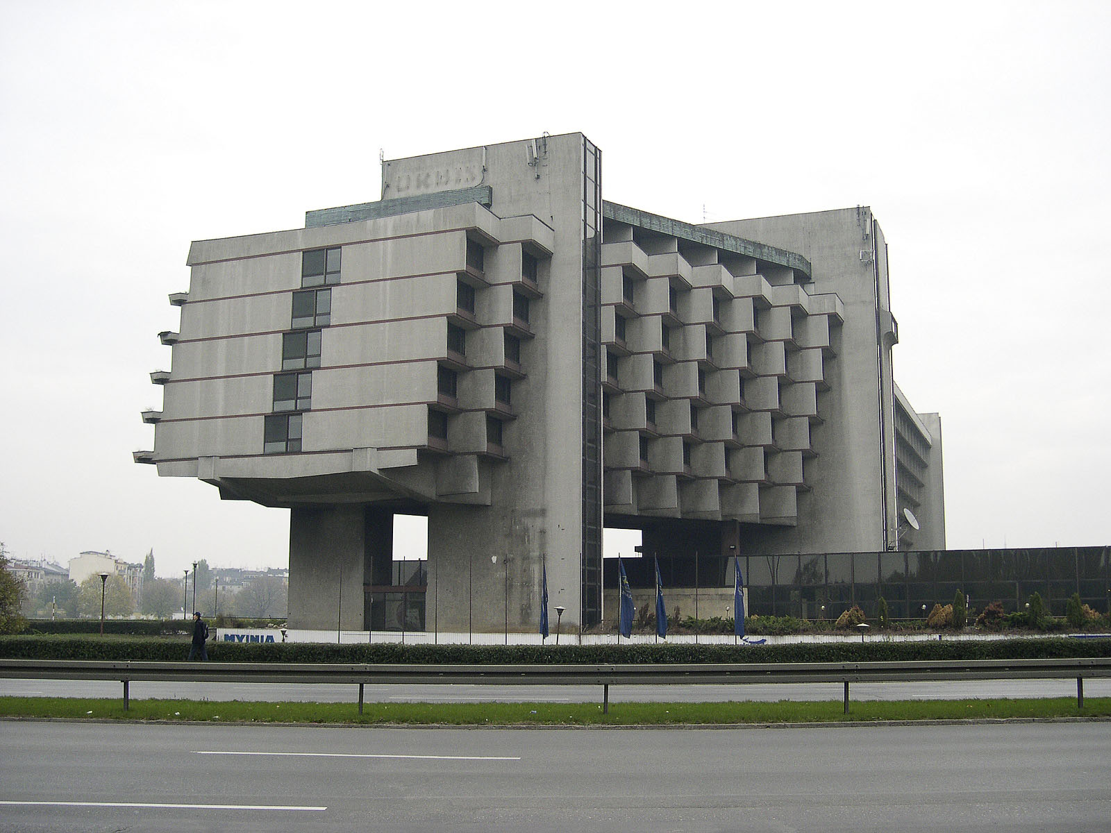 Forum Hotel in Kraków. This 4-star hotel belonged to Intercontinental hotel network, and shortly before its closure in 2002 was passed to Accor Hotels. Designed by Polish architect Janusz Ingarden and constructed in years 1978-1989. Photo shows state of the hotel as of 2003.